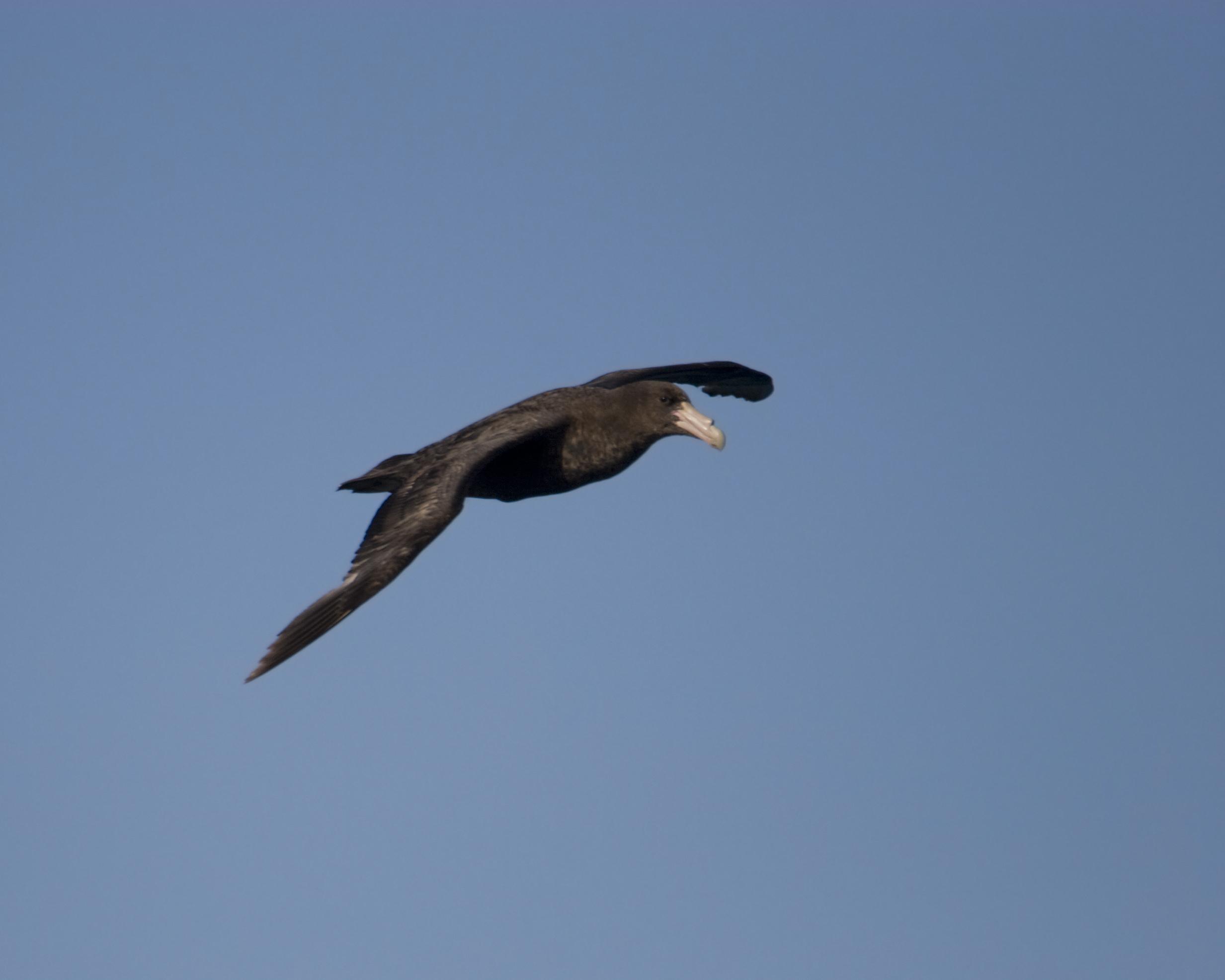 Southern Giant petrel (Macronectes giganteus)